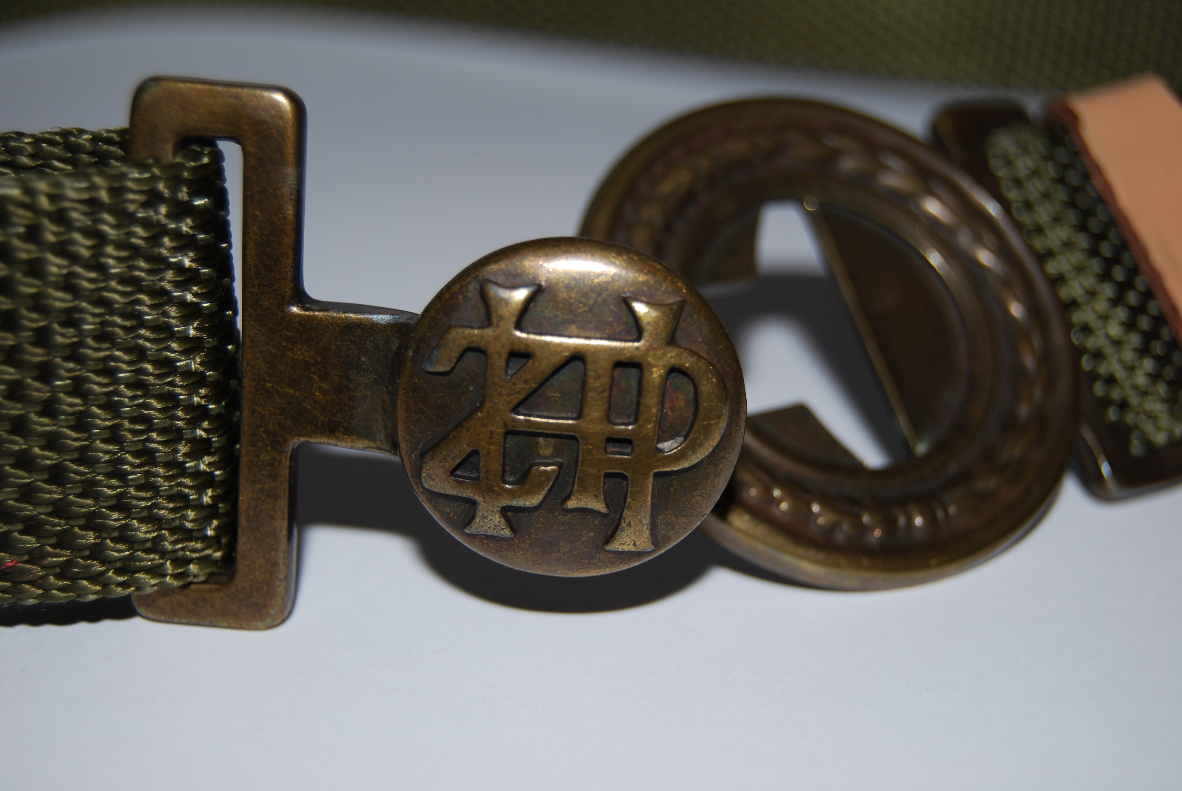 Polish Scouting Association Związek Harcerstwa Polskiego belt